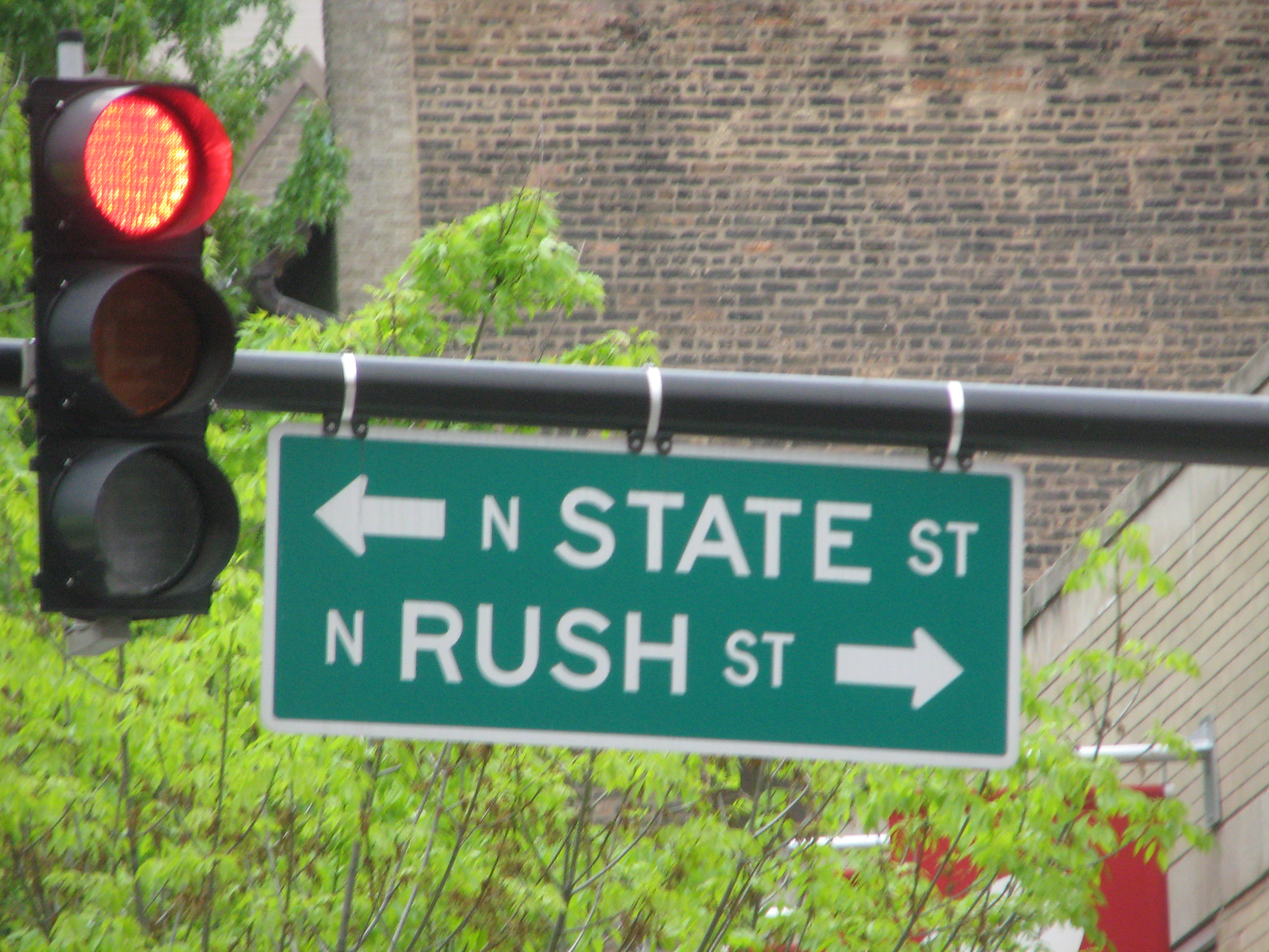 Rush Street State Street sign